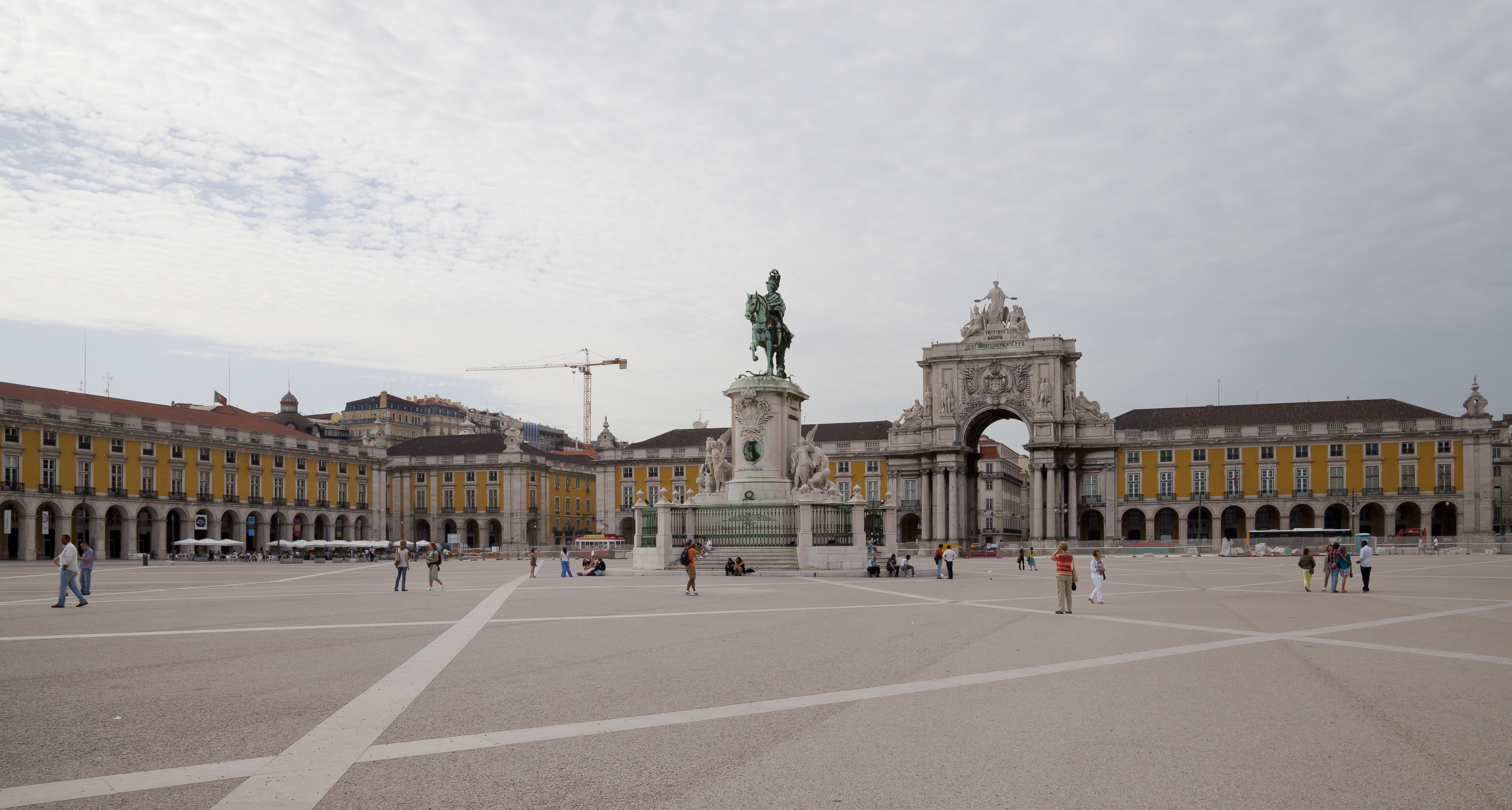 Commerce Square, Lisbon, Portugal